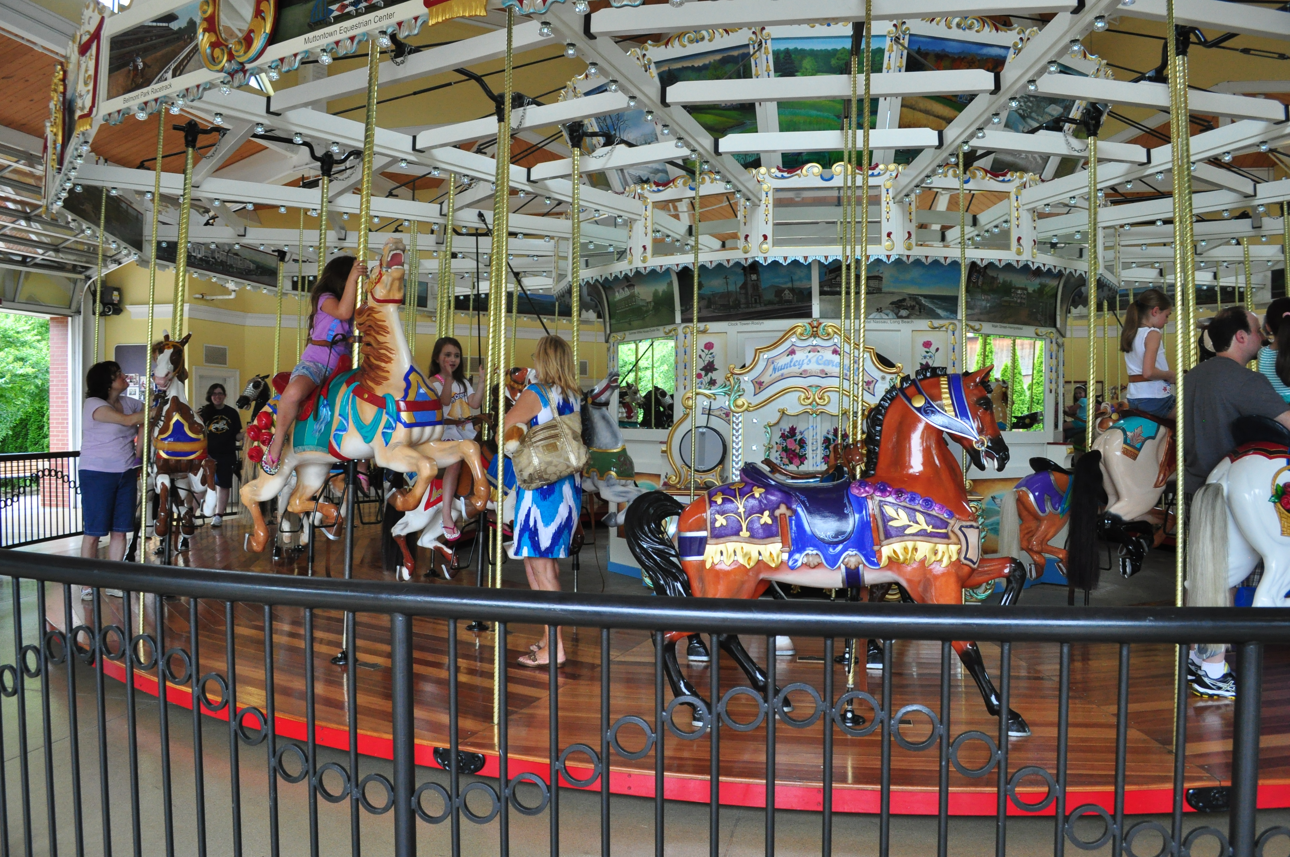 Nunley's Carousel at the Cradle of Aviation Museum, East Garden City, New York.